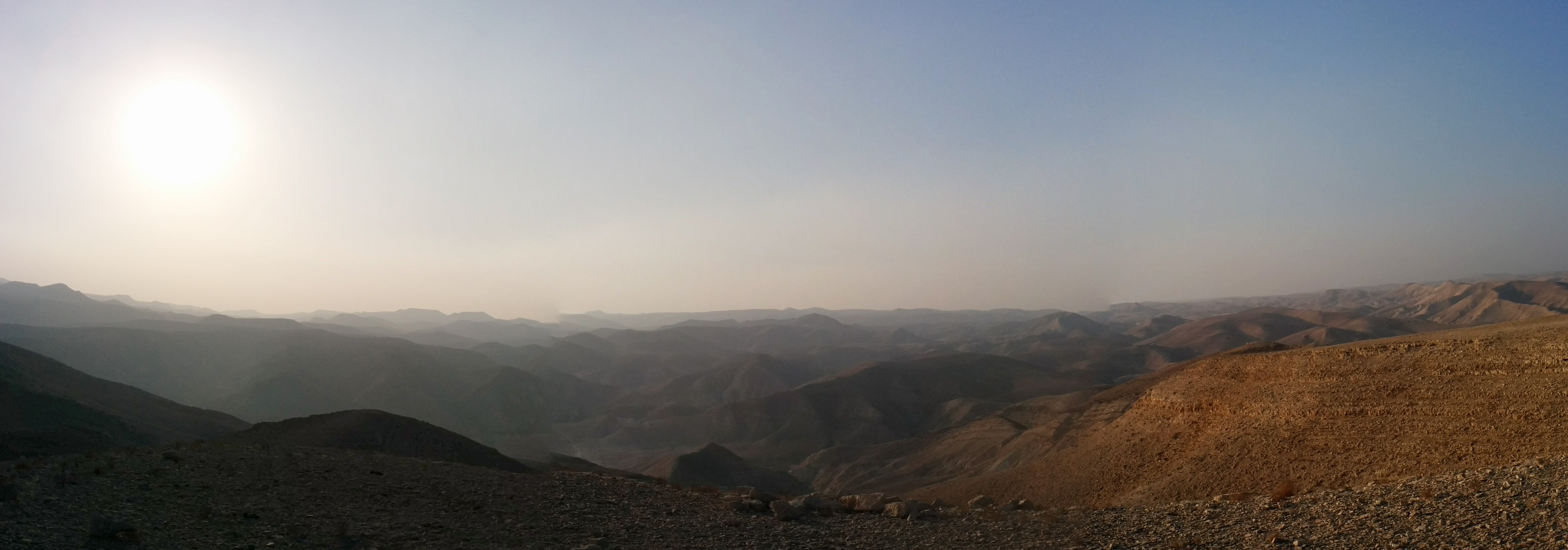 מבט מהר נמר שמעל נחל צאלים- לכיוון מערב